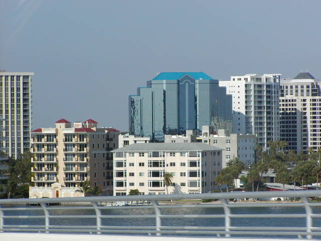 Downtown Sarasota from the John Ringling Causeway, Jesse Yoder